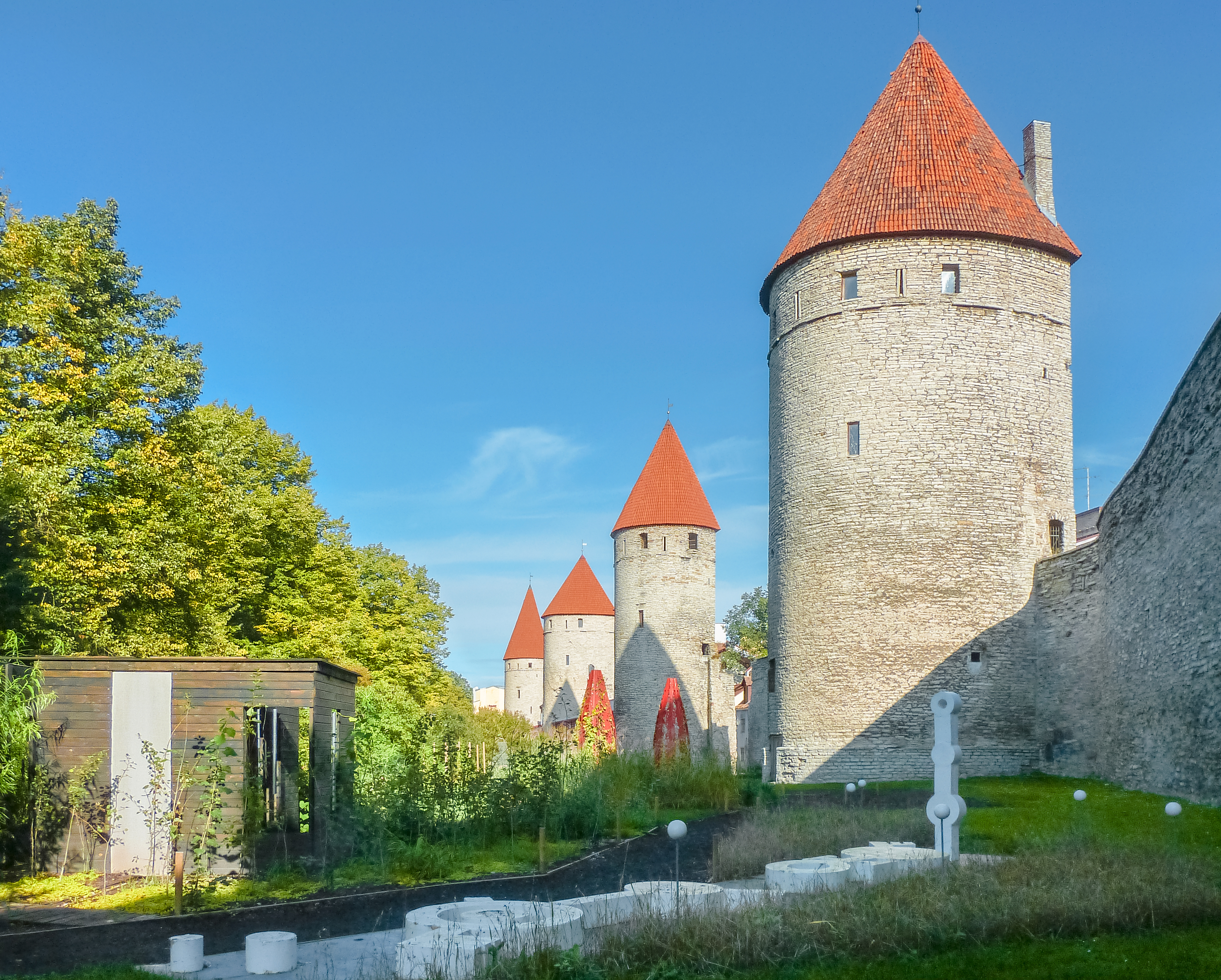 City wall in Tallinn with temporary garden exhibition